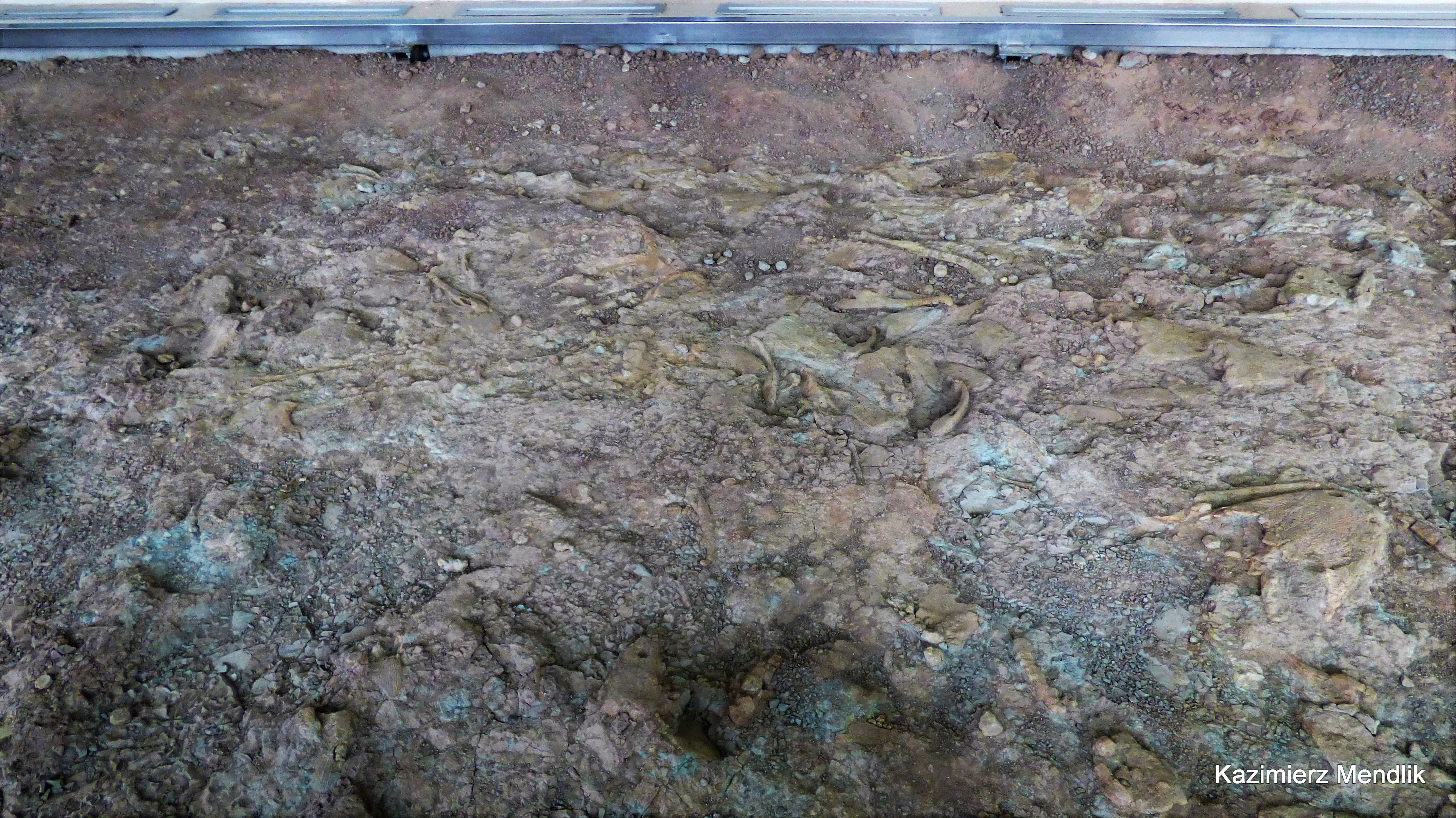 Conserved excavation site with numerous temnospondyl (large extinct amphibian) fossils in situ, Paleontological Pavilion, Jura Park Krasiejów